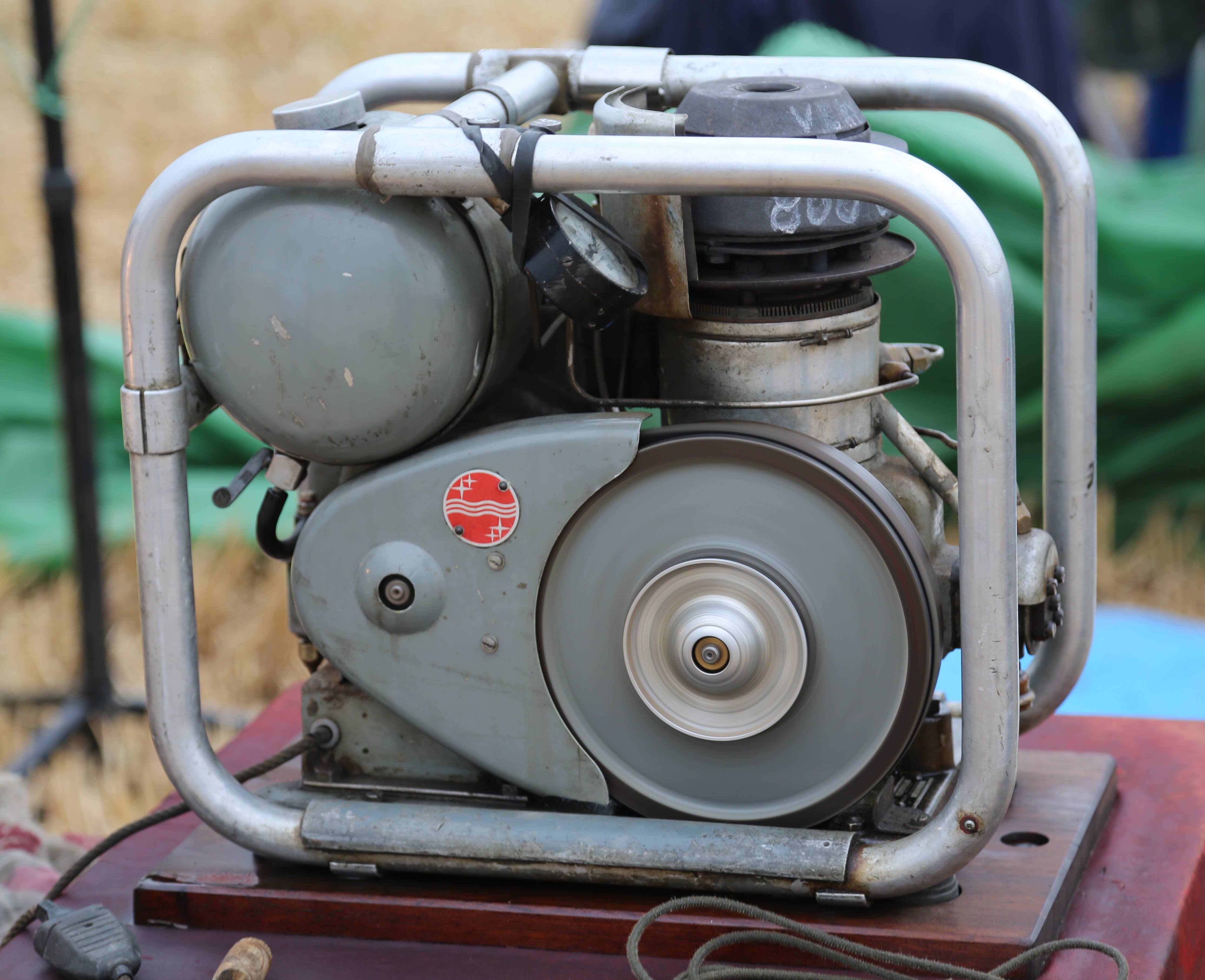 photo of a Philips Stirling generator